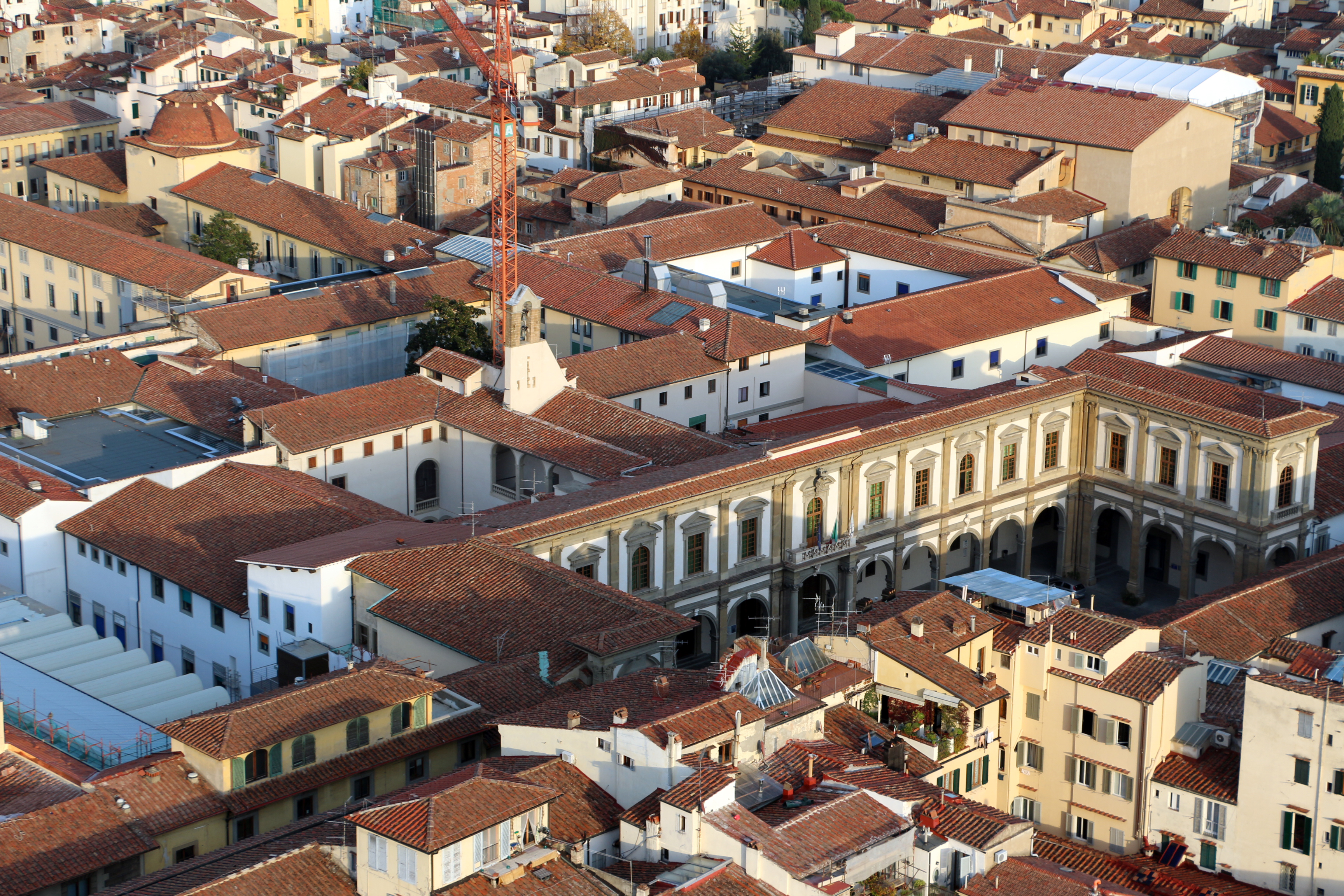 Exterior of Santa Maria del Fiore (Florence)